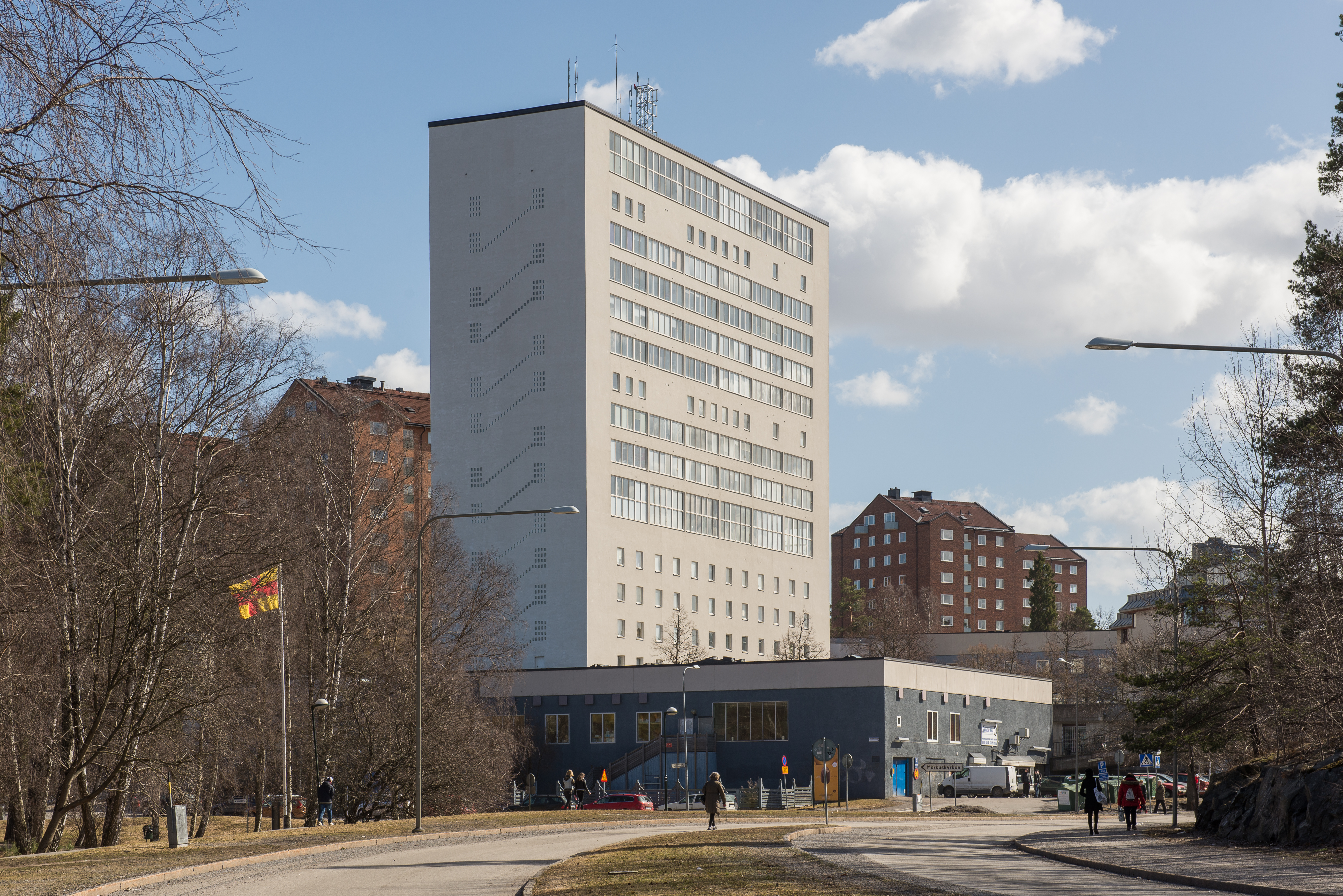 Björkhagen is a district (Swedish: stadsdel) in Skarpnäck borough, Stockholm, Sweden. Built in the 1950s. The tower block was designed by Hungarian-born architect Georg Varhelyi in 1954.